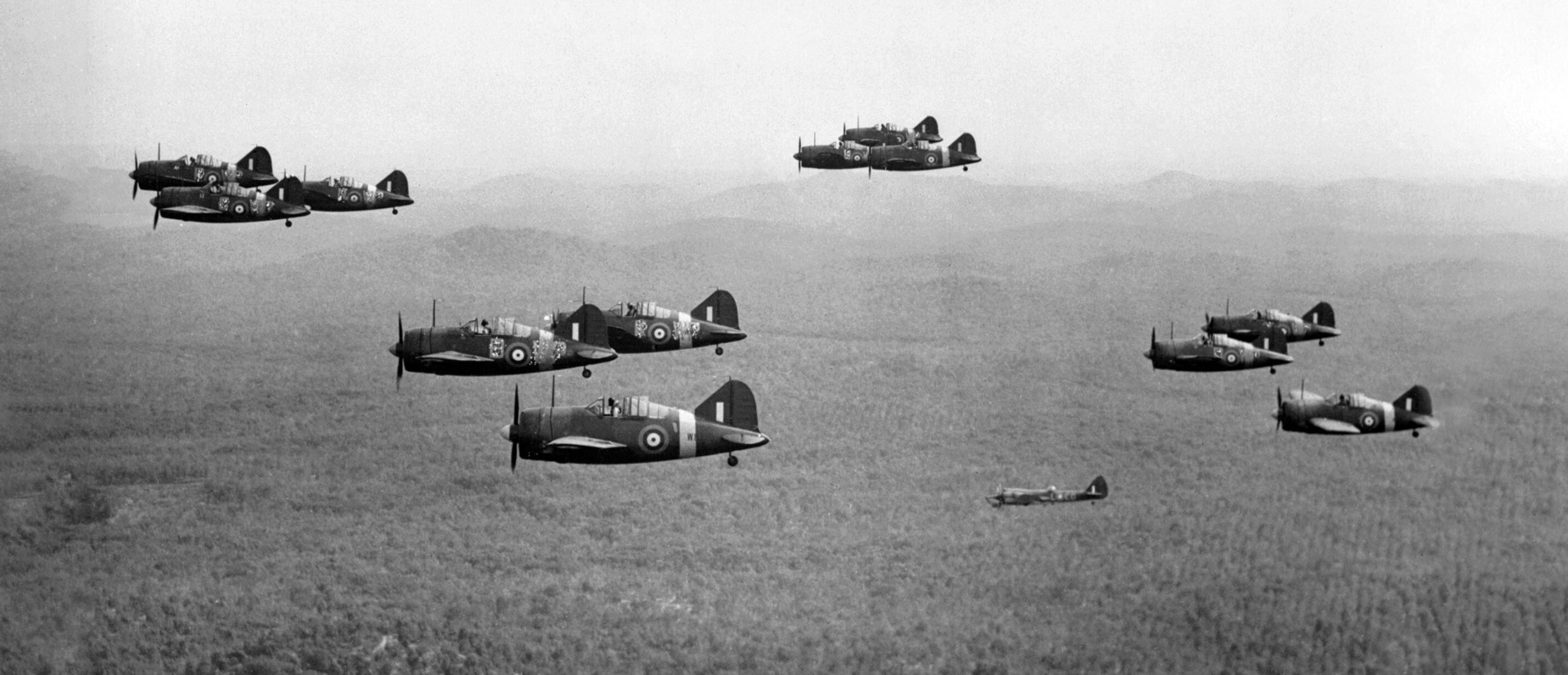 Twelve Brewster Buffalo Mark Is of No. 243 Squadron RAF, based at Kallang, Singapore, in flight over the Malayan jungle in in formations of three, accompanied by a Bristol Blenheim Mark IV of No, 34 Squadron RAF (lower right), based at Tengah. This is photograph K 1228 from the collections of the Imperial War Museums.